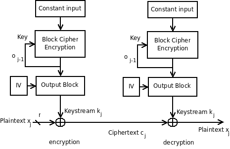 Key Feedback mode of operation for cryptographic block ciphers